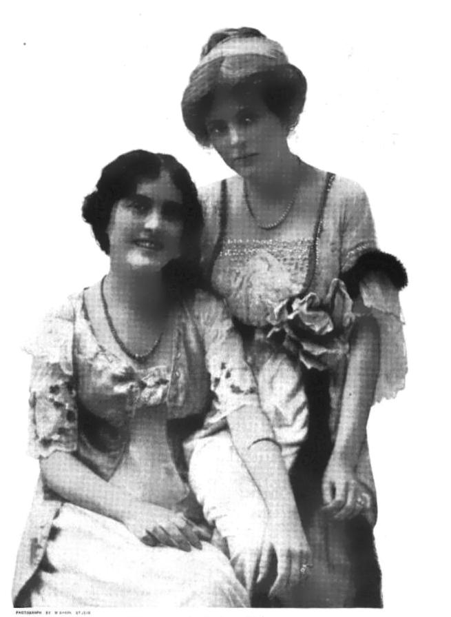 1913 photograph of sisters Edith Taliaferro and Mabel Taliaferro.